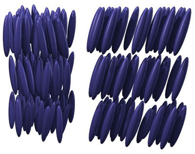 Schematic of mesogen ordering in the smectic liquid crystal phases: smectic-A (layered) and smectic-C (layered and tilted).